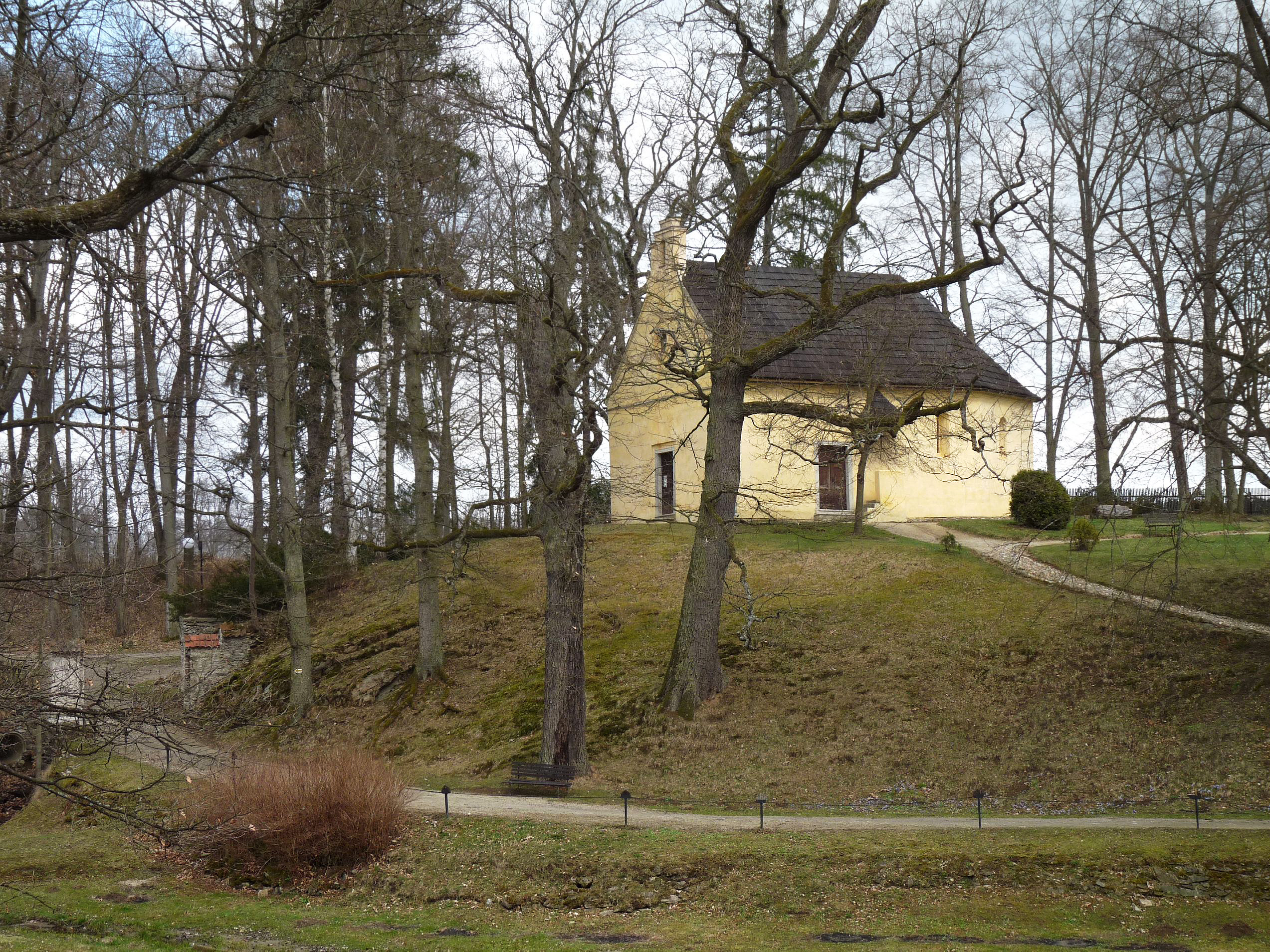 Holy Trinity Chapel in the village of Červená Lhota, Jindřichův Hradec District, Czech Republic.